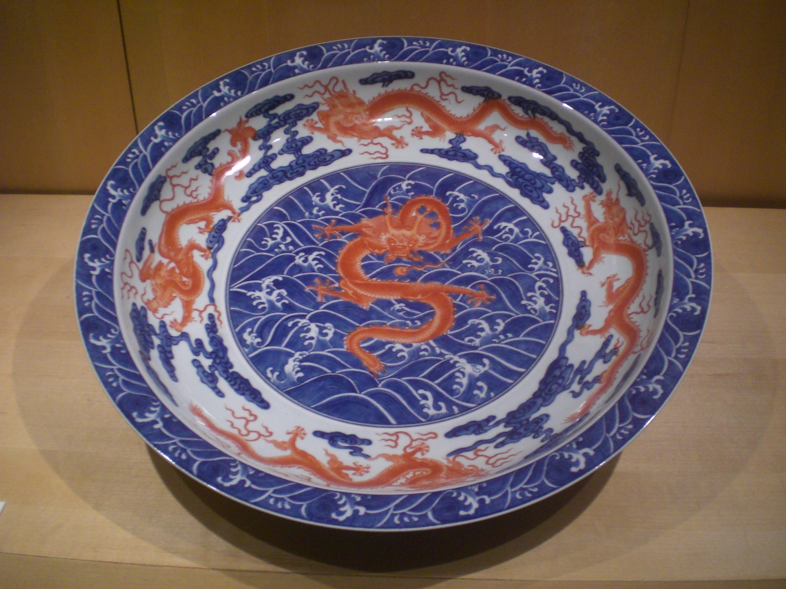 香港大學美術博物館